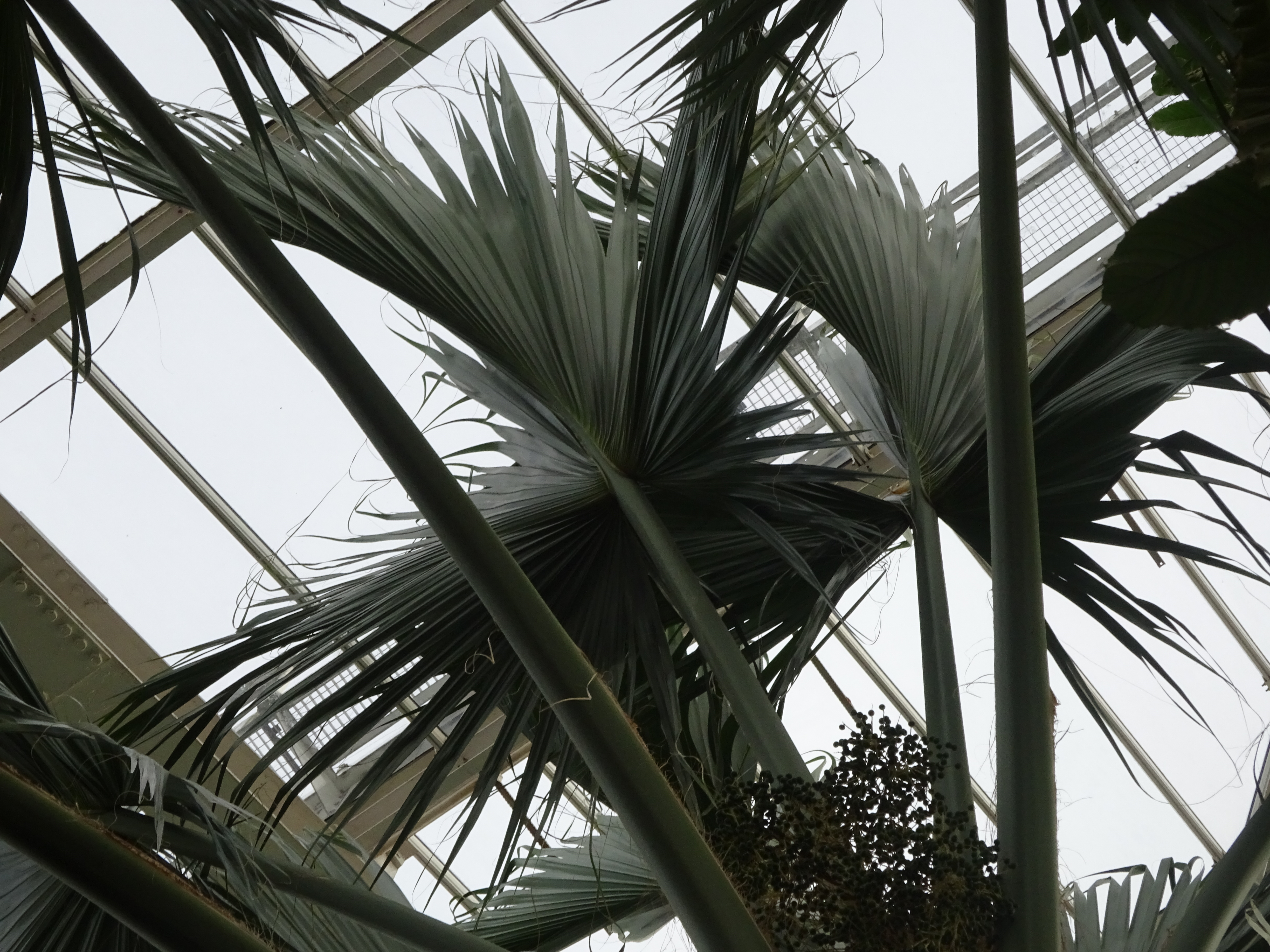 Sabal domingensis - Botanic Garden Meise